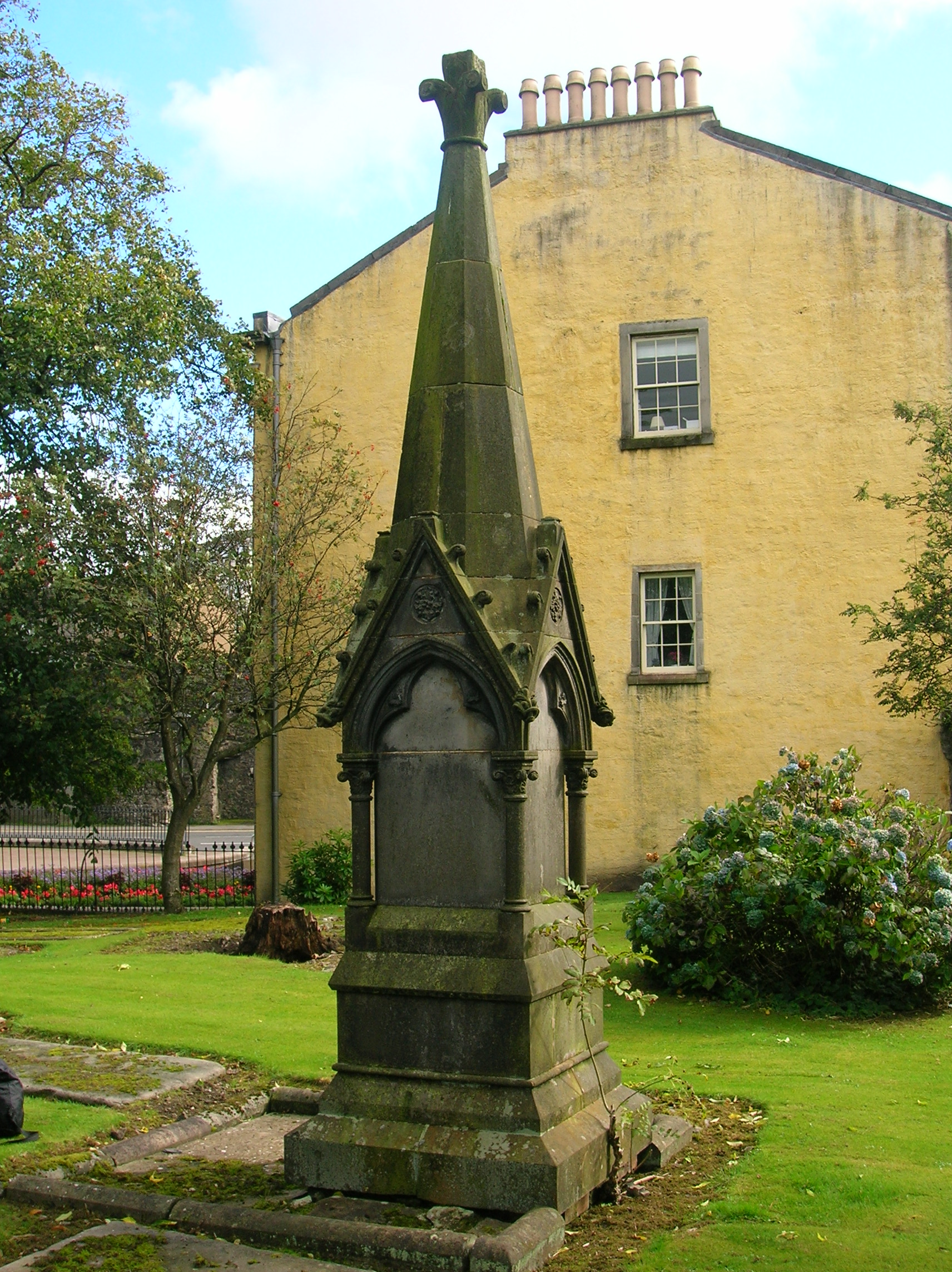 Hugh Brown of Broadstone (06-04-1787 to 02-01-1857) and Margaret Caldwell spouse (17-08-1783 to 04-06-1845). North Ayrshire, Scotland.